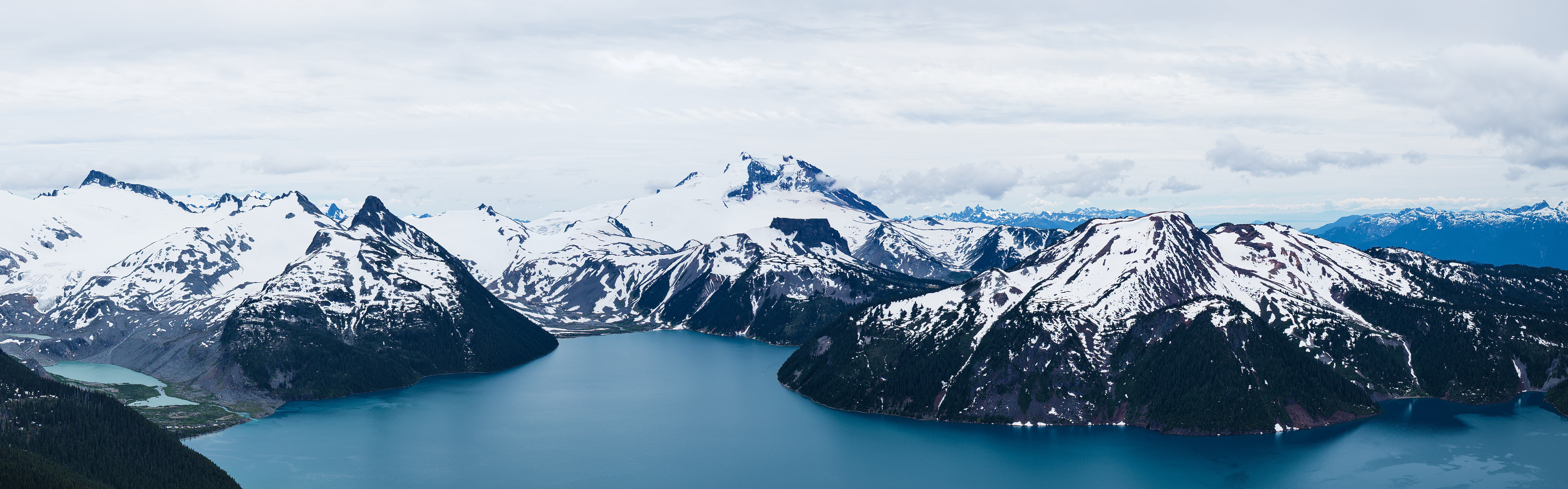 Panoramic view of Garibaldi Lake from Panorama Ridge (Garibaldi Provincial Park, BC) This photo was taken in a protected area in Canada, Wikidata item Garibaldi Provincial Park (Q1143621)